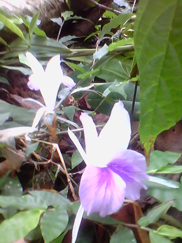 Chenganeer Flower